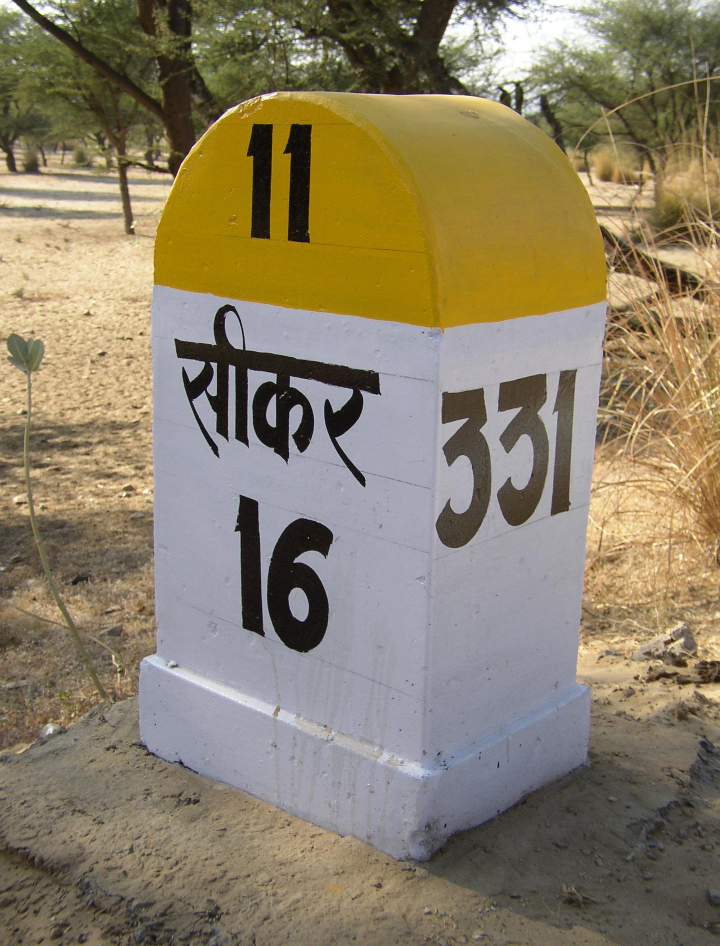 Kilometre sign near Sikar in Rajasthan, India. Sign represents National highway 11. This section has been renumbered as part of NH 52.